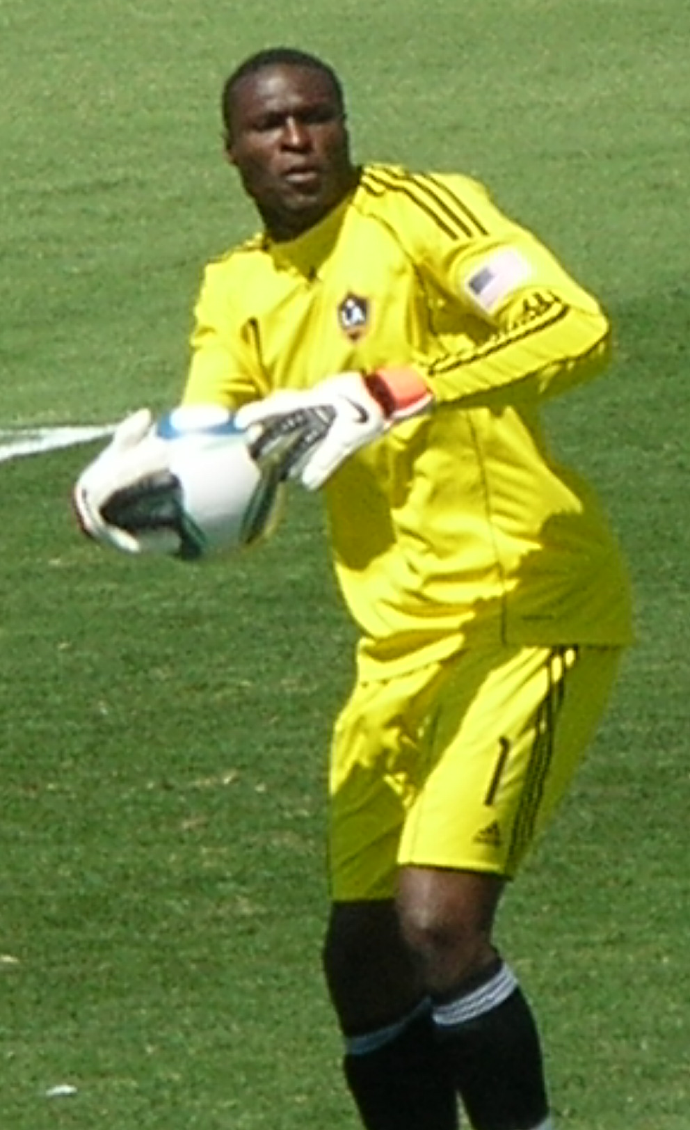 LA Galaxy goalkeeper Donovan Ricketts at an away game against the San Jose Earthquakes. The Earthquakes won 1-0.